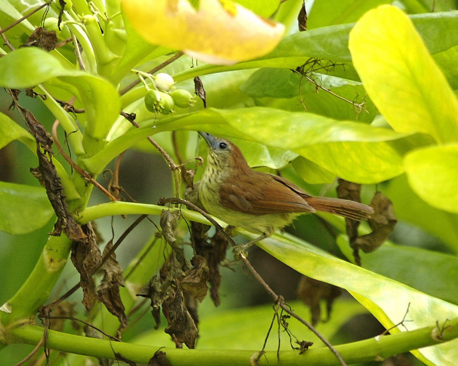 Striped Tit-Babbler Macronous gularis Bintan, Indonesia